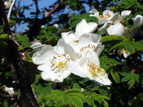 Rosa sericea subsp. omeiensis f. pteracantha